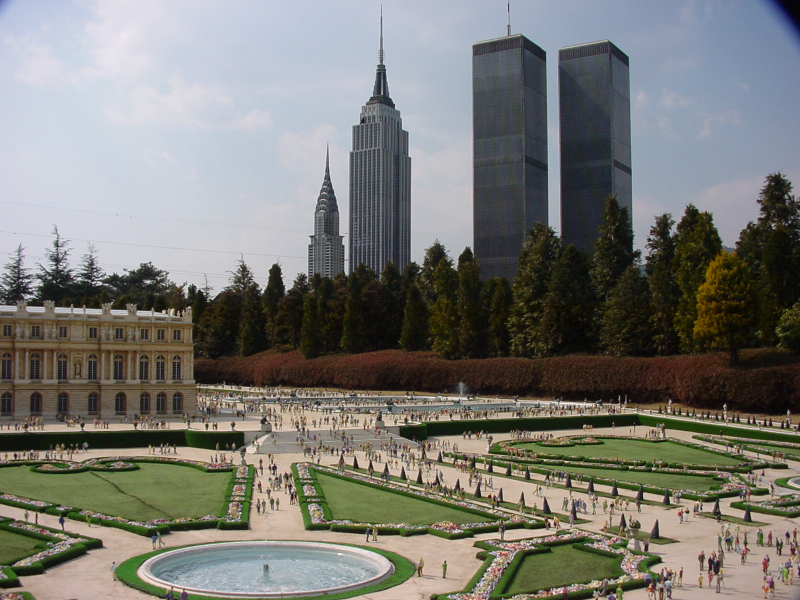 1:25 scale miniature scene of Versailles with miniature World Trade Center in the background, at Tobu World Square